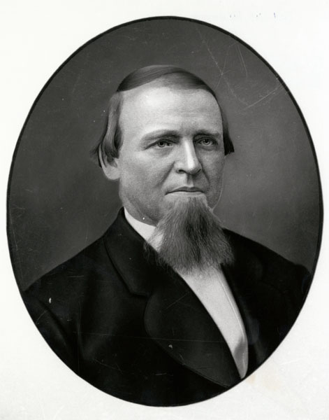 An image of Gottlieb Heileman, founder of the G. Heileman Brewing Company. Subject died in 1878